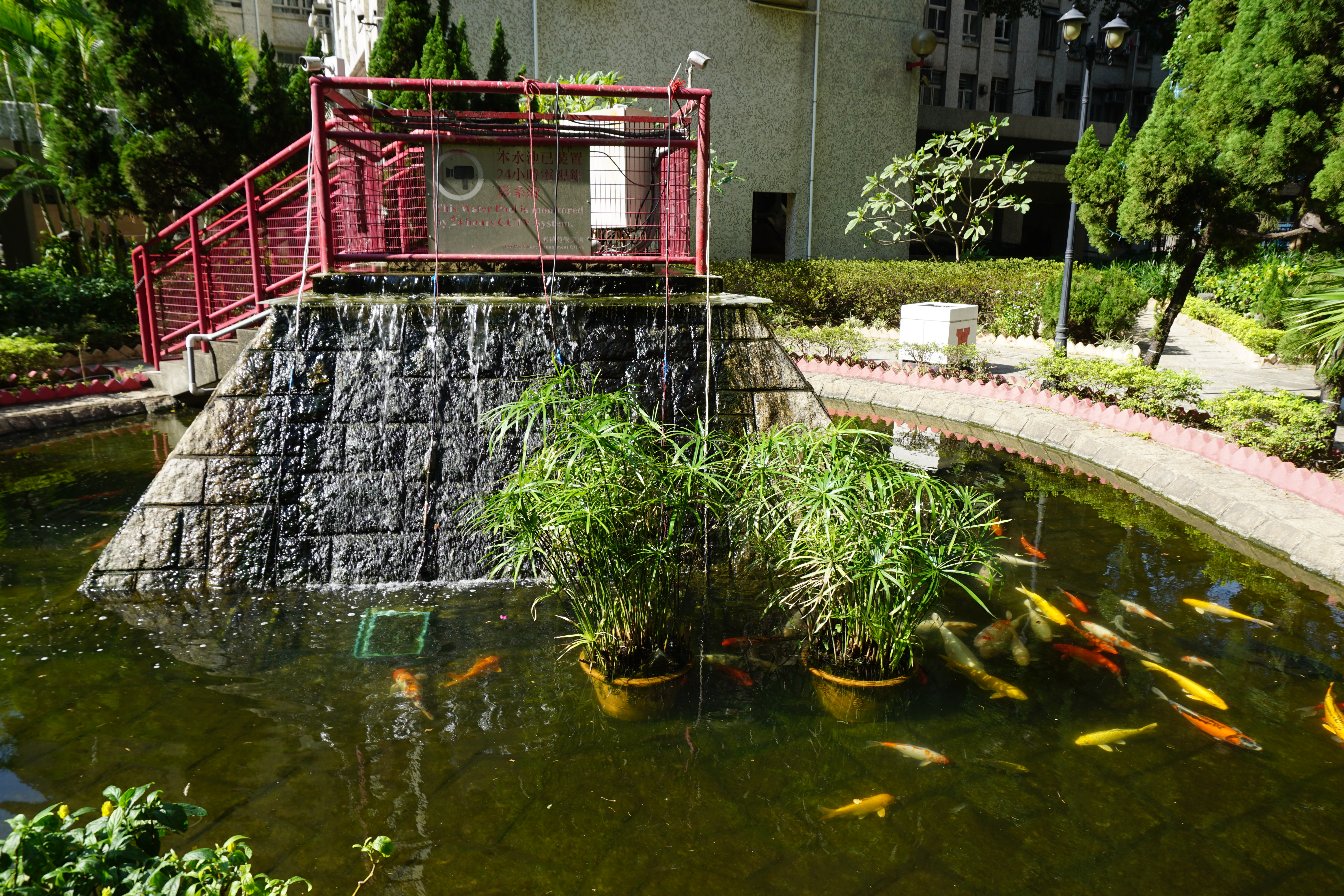 Siu Hei Court in Tuen Mun, Hong Kong.